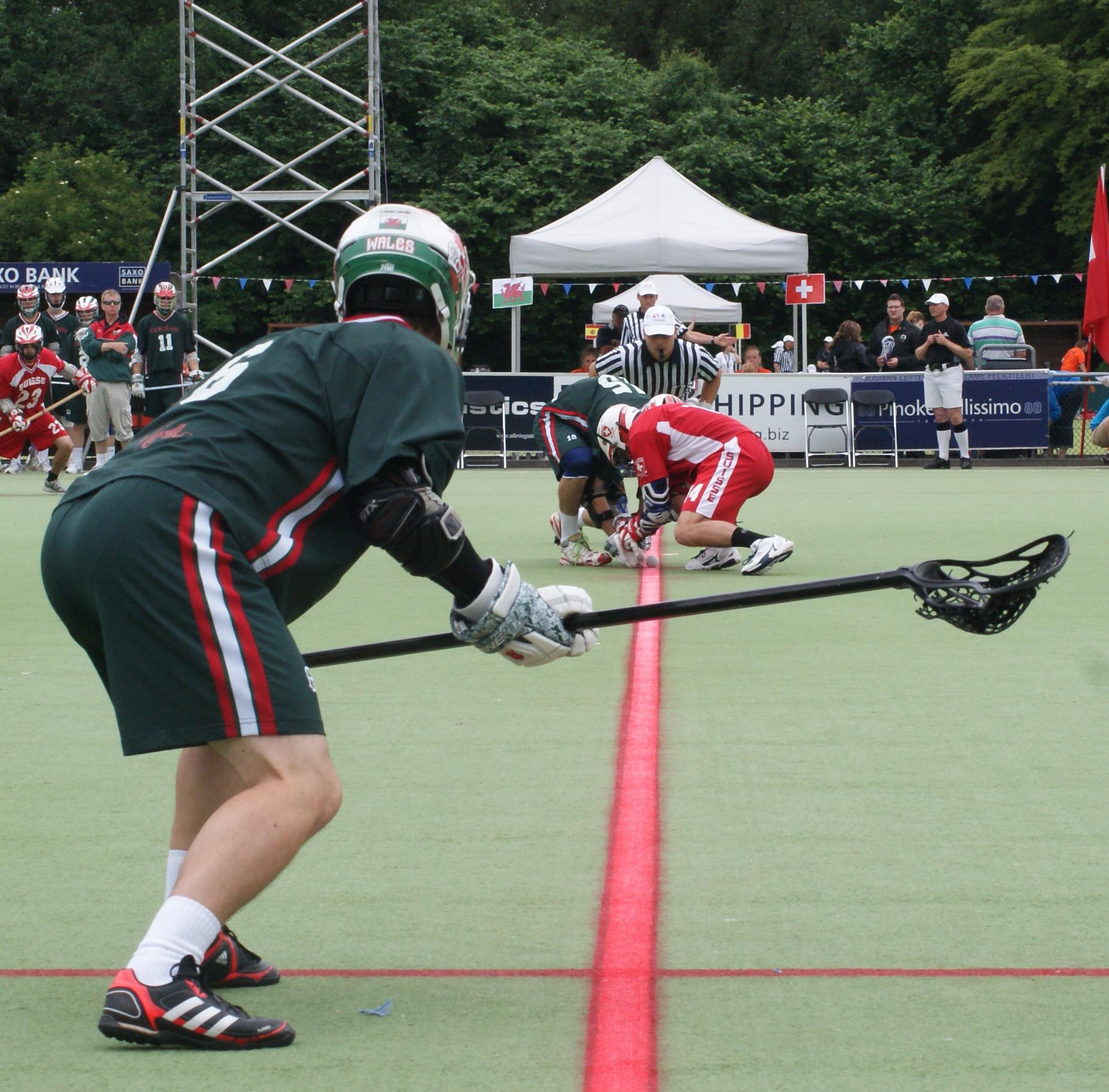 European Lacrosse Championships 2012 - Wales vs. Suisse - Faceoff